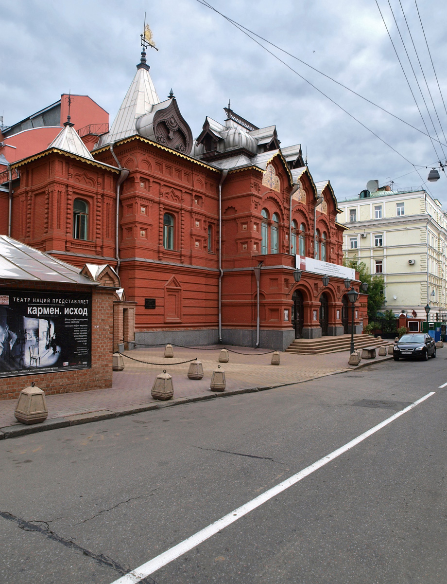 Theater of Nations, former Korsh Theater in Moscow (Petrovsky Lane, 3)